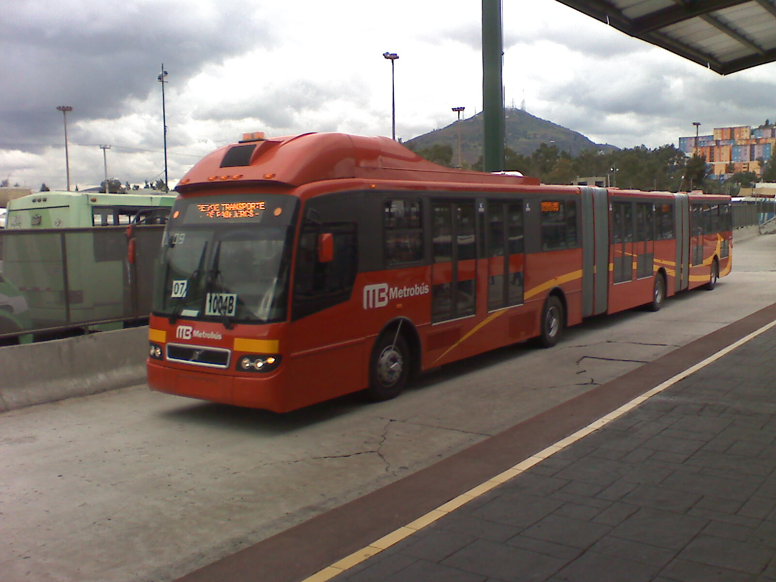 Biarticulated bus of Metrobus. Mexico City